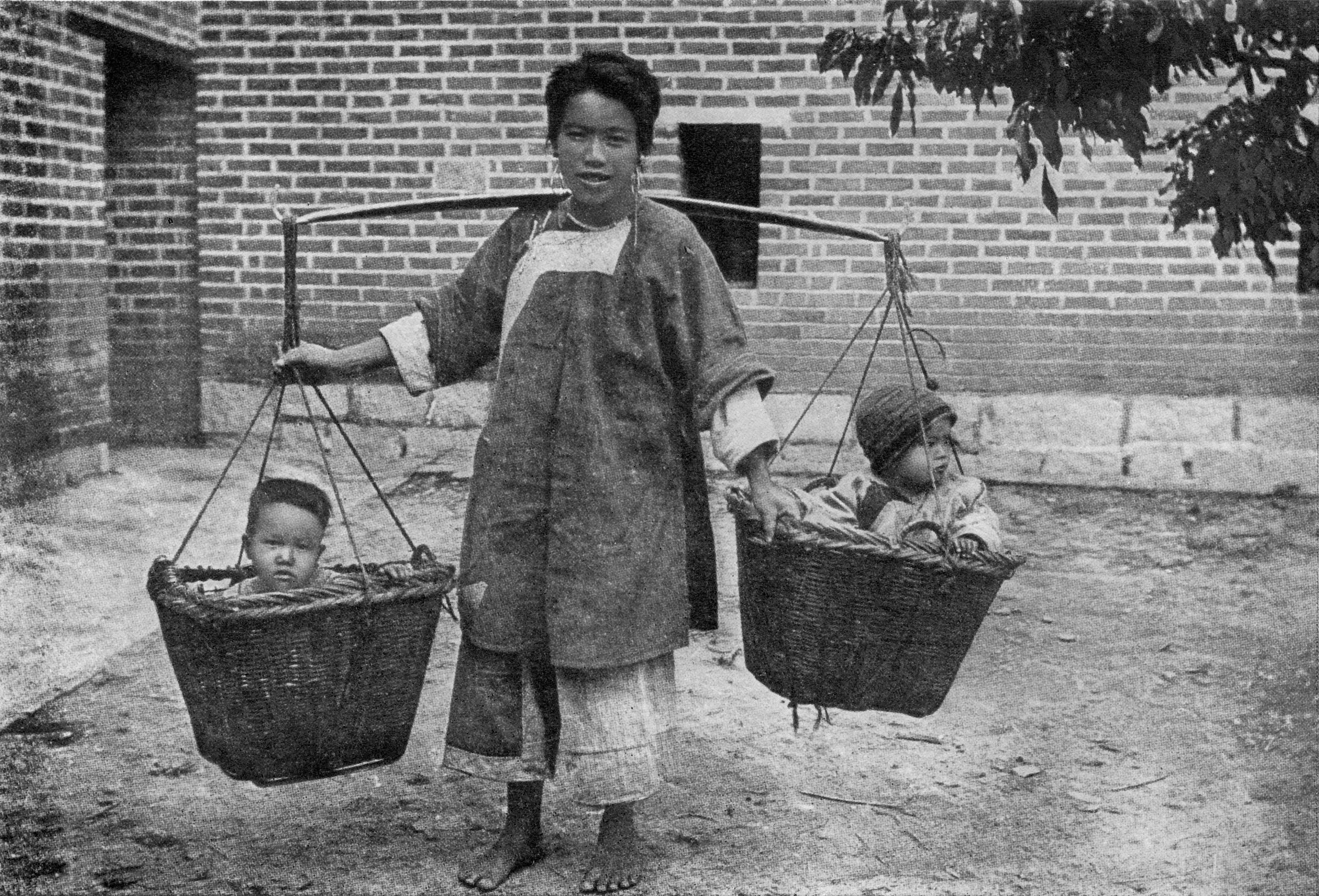 THE BALANCE OF POWER IN CHINA.